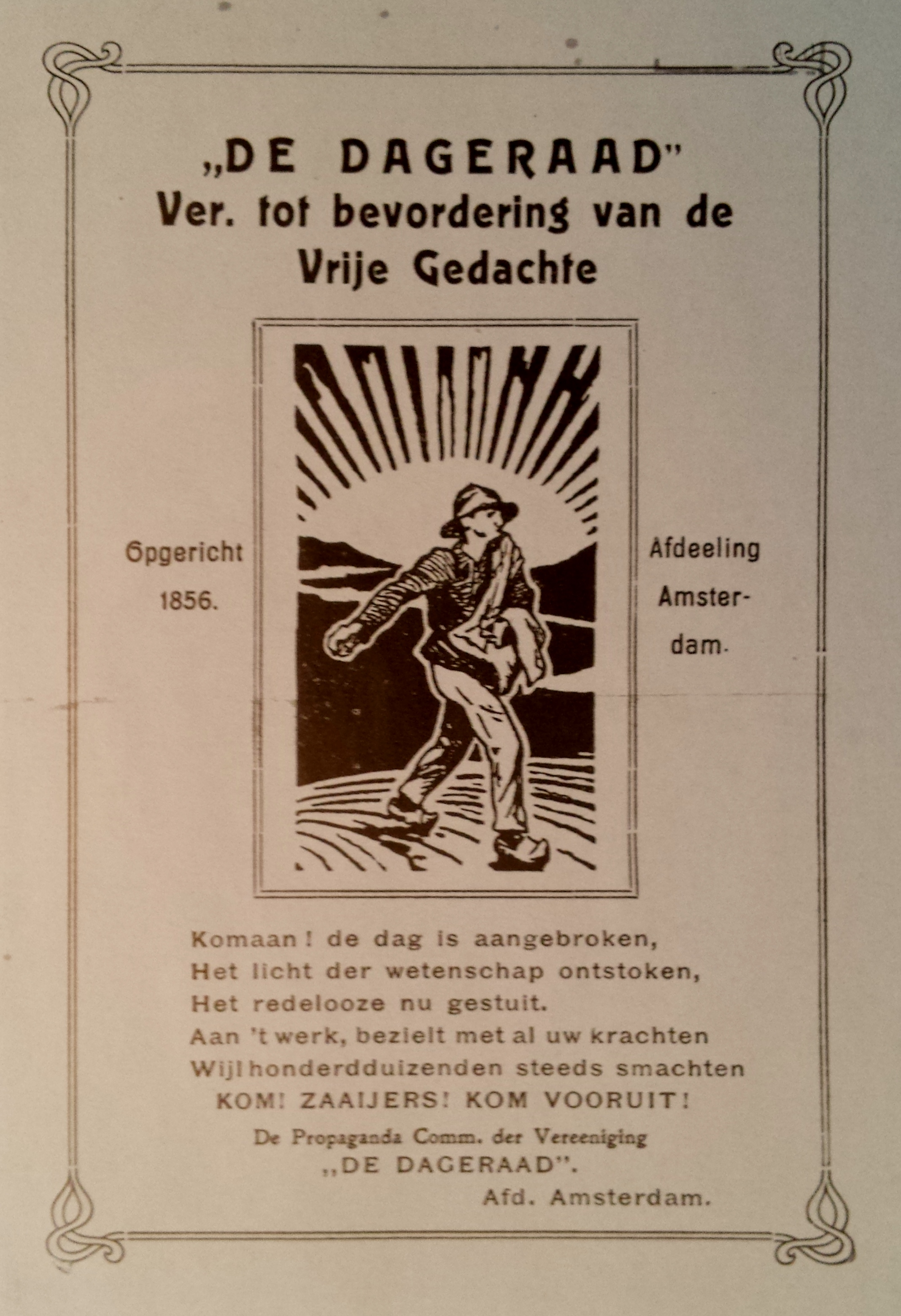 Propaganda placard of the Dutch freethinkers association De Dageraad ("The Dawn") from around 1920. Translation: Text above: '"The Dawn". Ass[ociation] for the promotion of the Free Thought.' Text left: 'Founded 1856.' Text right: 'Chapter of Amsterdam.' Text below: 'Come on! Day has broken, The light of science has been ignited, Irrationality has been halted. [Go] to work, inspire with all your strength While hundreds of thousands continue to yearn COME! SOWERS! COME FORWARD! The Propaganda Comm[ission] of the association "The Dawn". Ch[apter of] Amsterdam.'